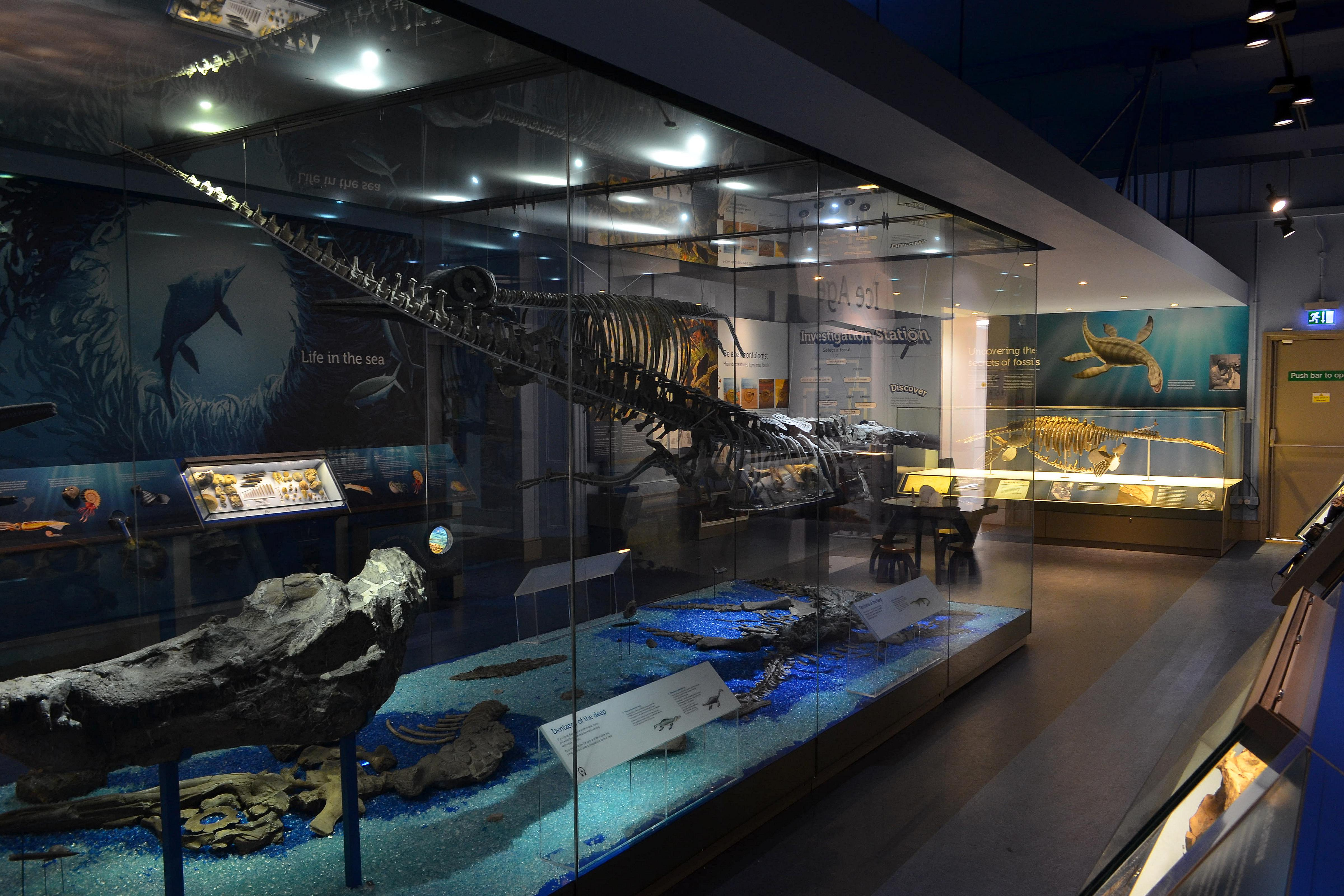 Marine fossils exhibited at Peterborough Museum in July 2017.